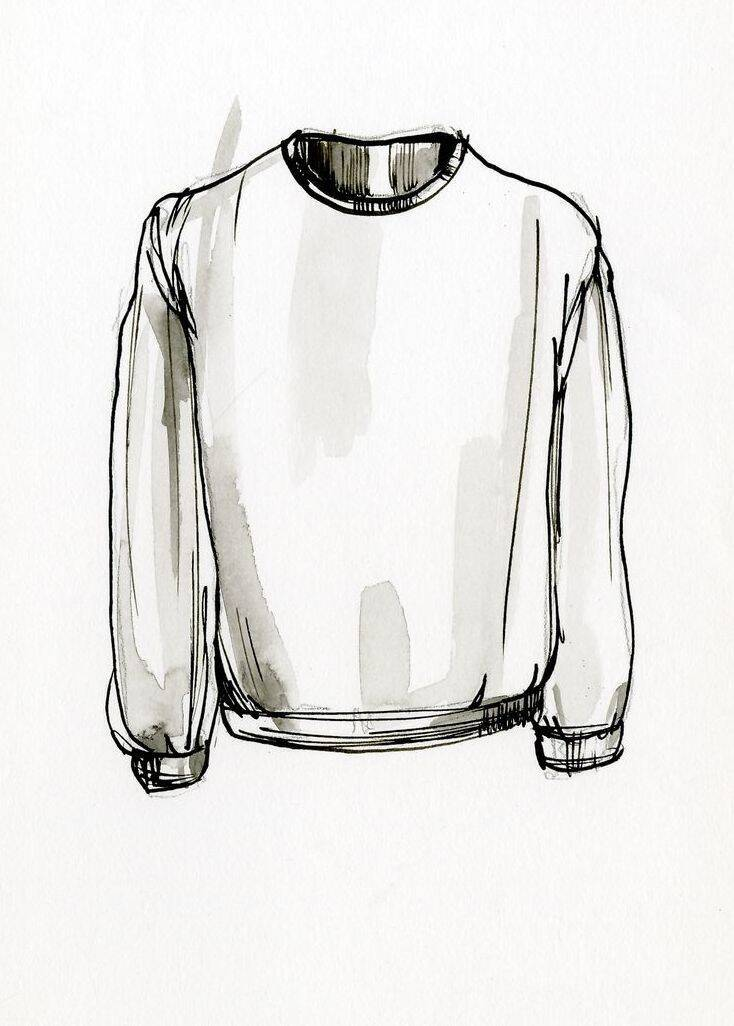 The description of the concept in this drawing is: Main garments, usually made without a placket or similar opening, that must be drawn over the head to be put on. (AAT)